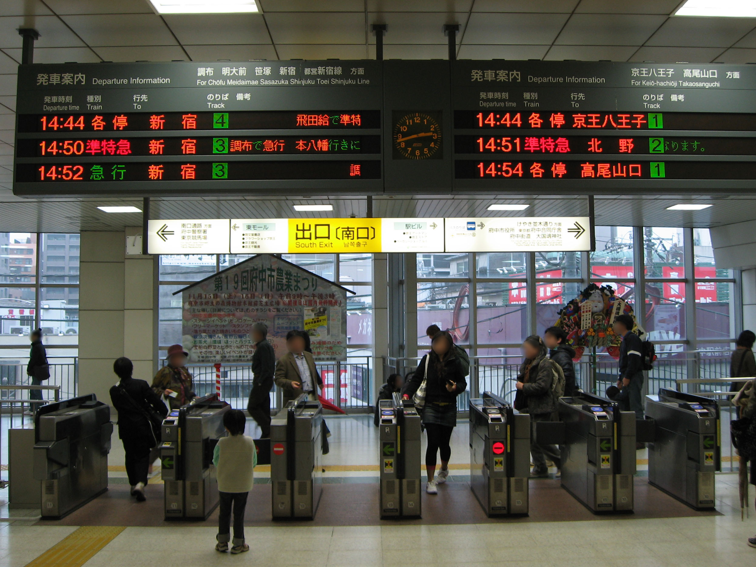 South Gate of Fuchu Station on Keio Line in Fuchu, Tokyo, Japan.